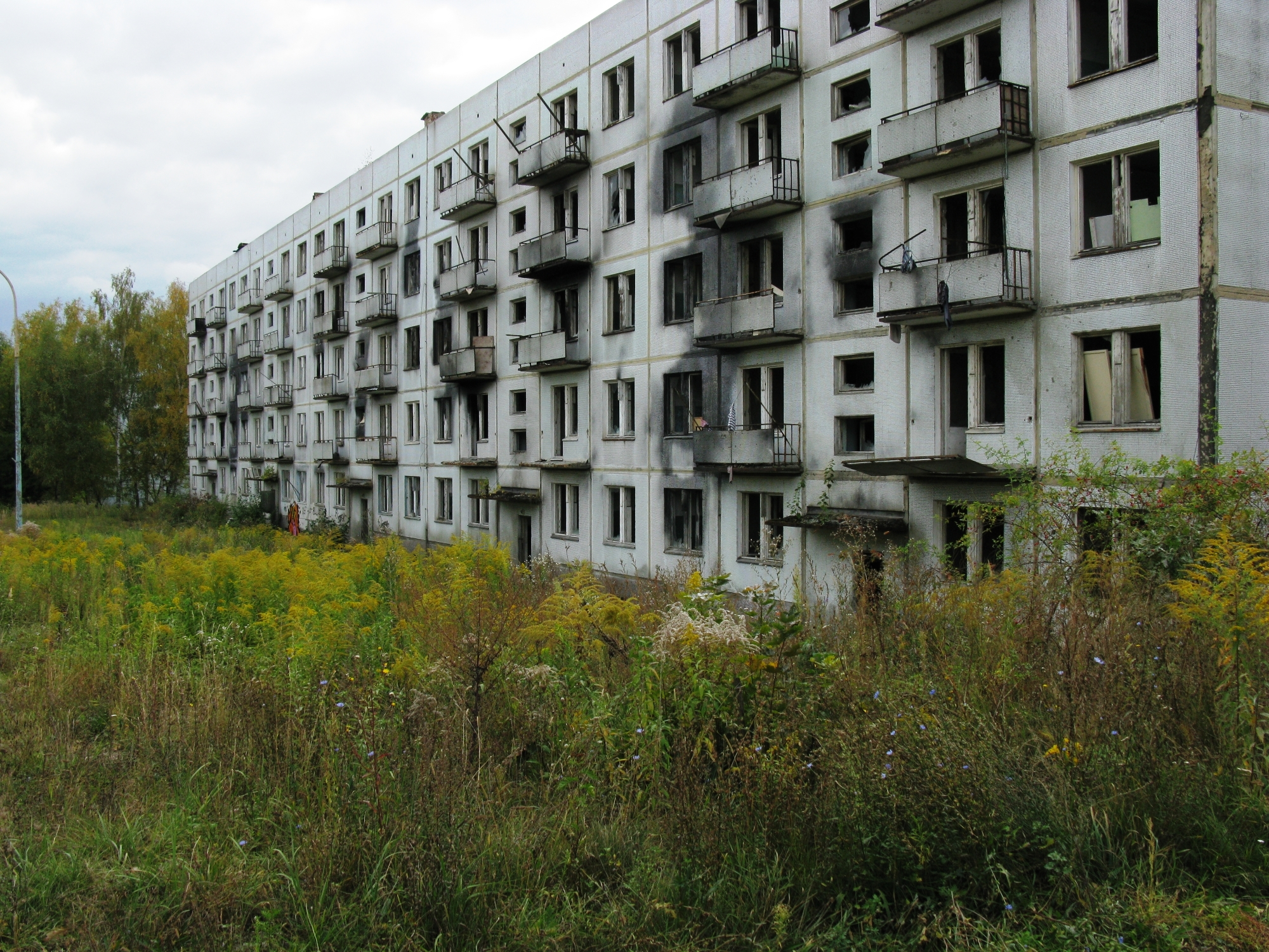 A building for Soviet soldiers near airport of Milovice.